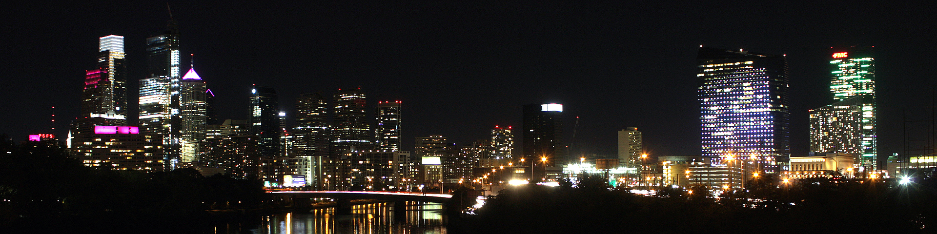 Philadelphia, Pennsylvania, United States, city skyline at night from Spring Garden Street Bridge